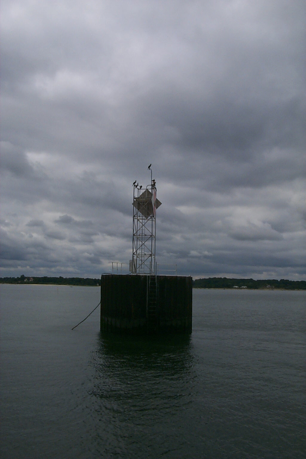 Modern Cold Spring Harbor Light. This utilitarian day beacon and light replaced the lighthouse in 1965.